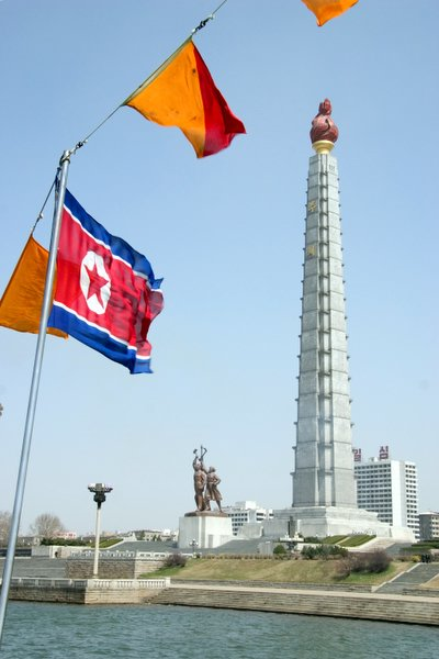 chuche monument in Pyongyang